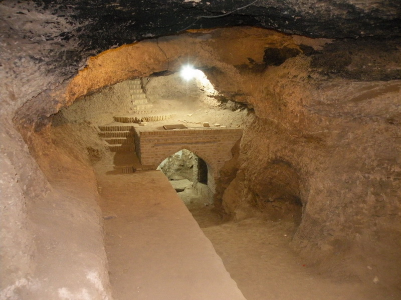 rigareh watermill chamber